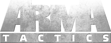 Logo for the 2013 video game, ArmA Tactics.